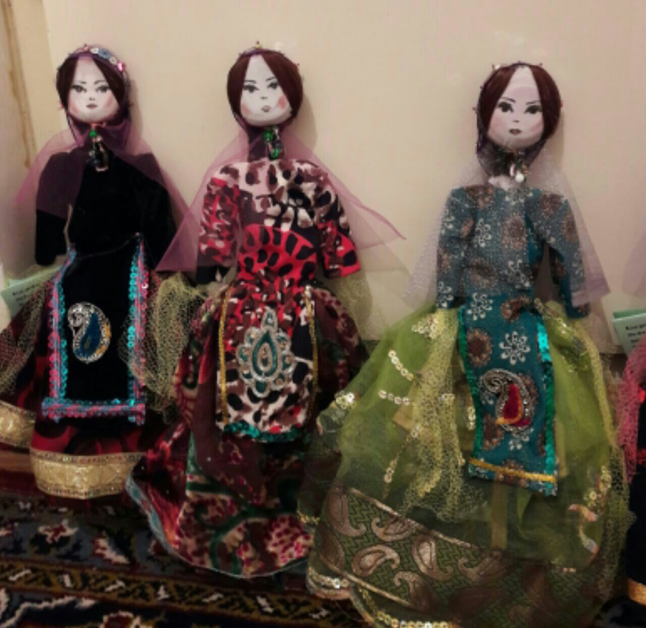 Layli (Lurish doll) from Mamasani, Iran